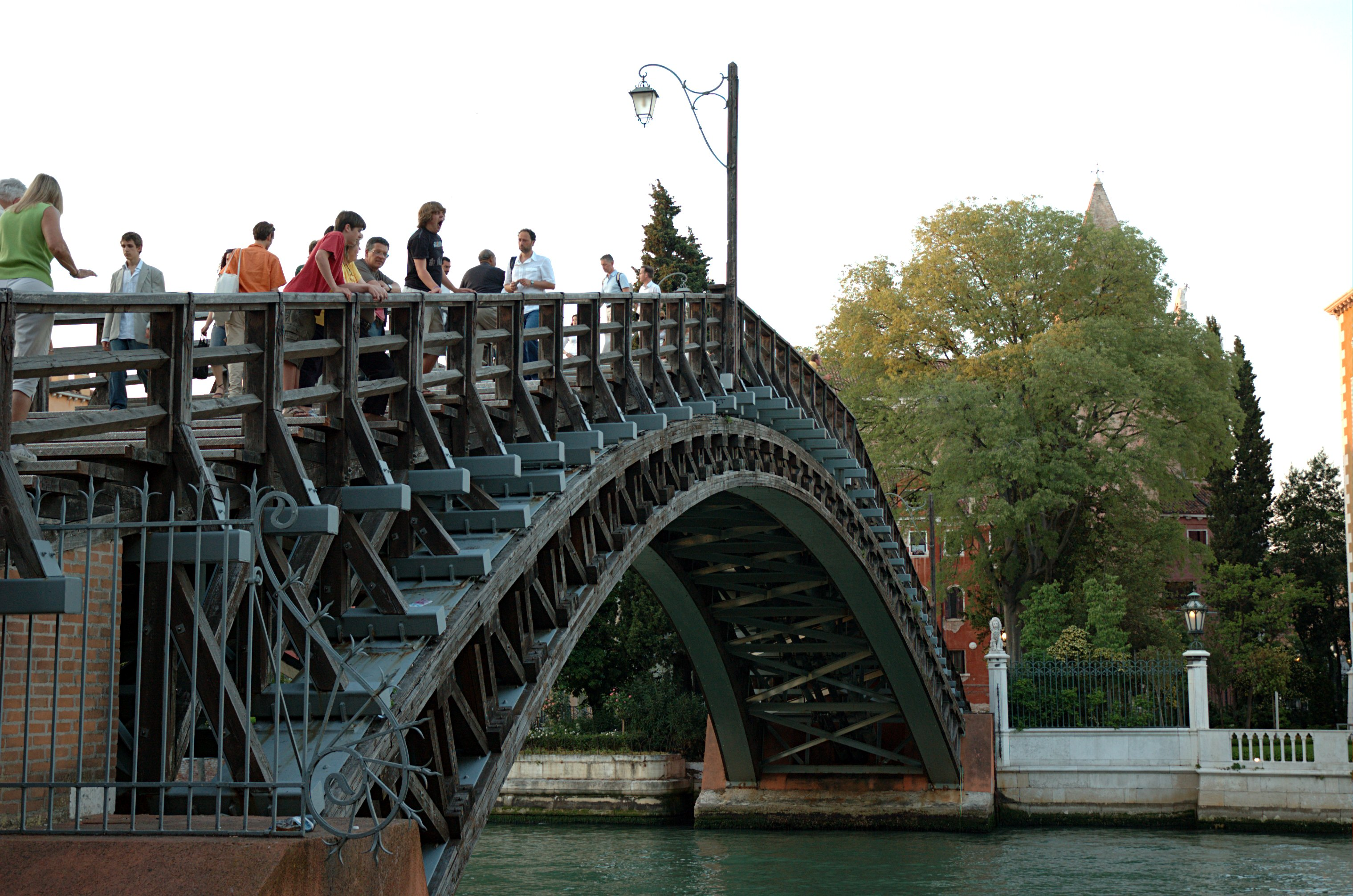 Ponte dell'Accademia, a bridge over the Grand Canal in Venice, Italy.